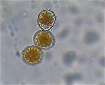 Puccinia recondita f.sp. tritici on Triticum aestivum, uredospores (400x)